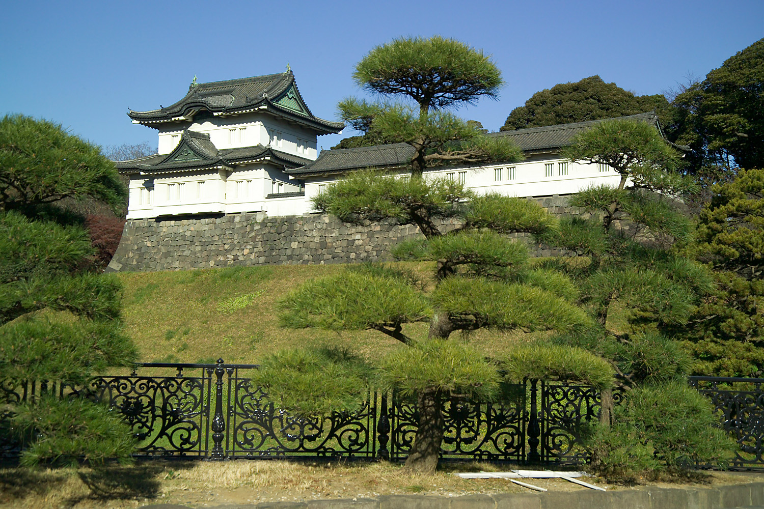 Fushimi Yagura inside grounds of Imperial Palace Kokyo Tokyo Kanto region Honshu Japan I took this photo and contribute my rights in the file to the public domain; individuals and organizations retain rights to images in it.